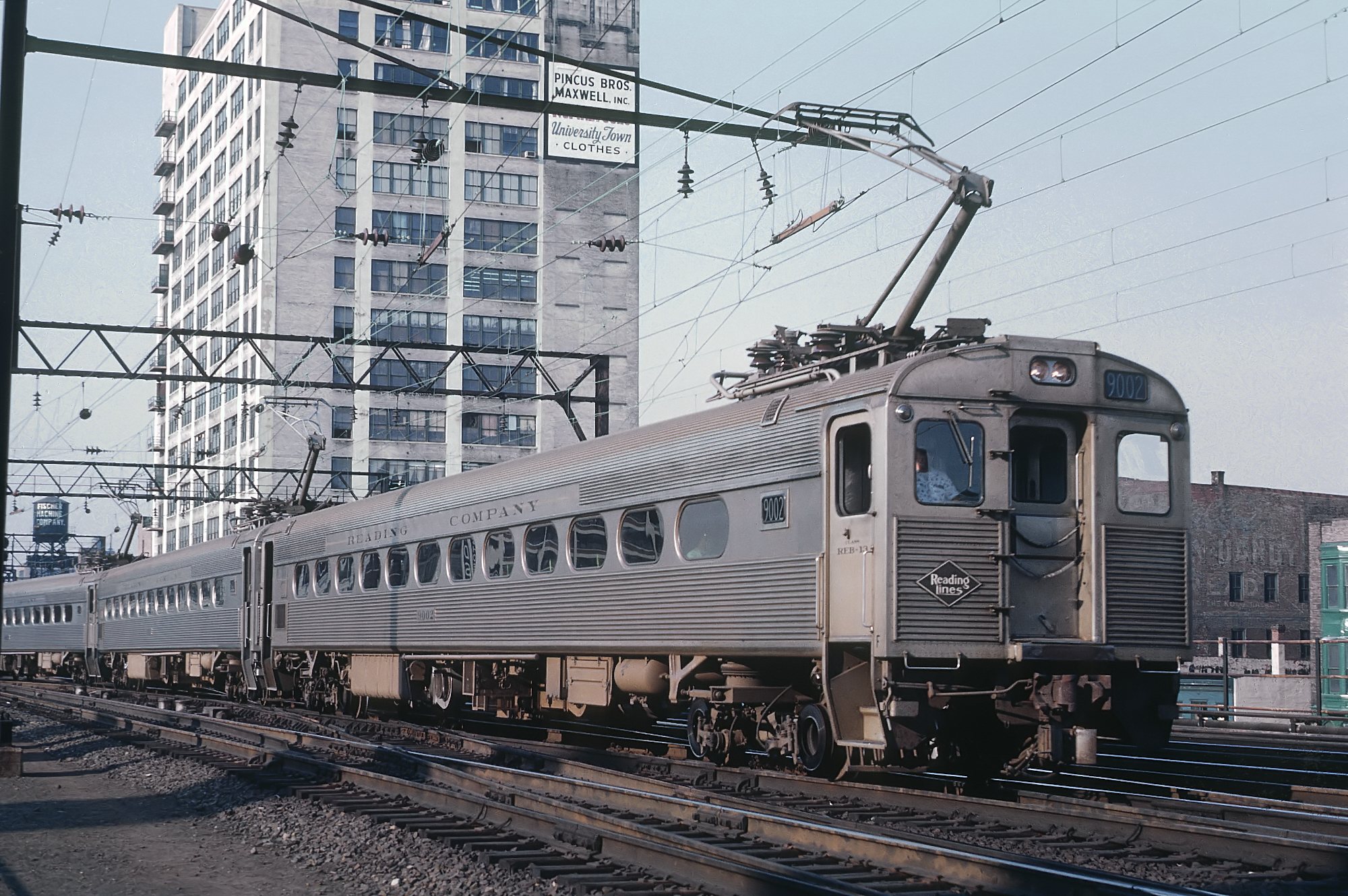 Photo by Roger Puta